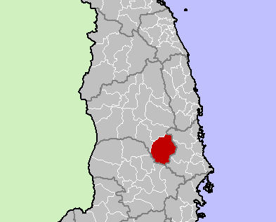 Krong Pa District, Gia Lai Province, Vietnam.